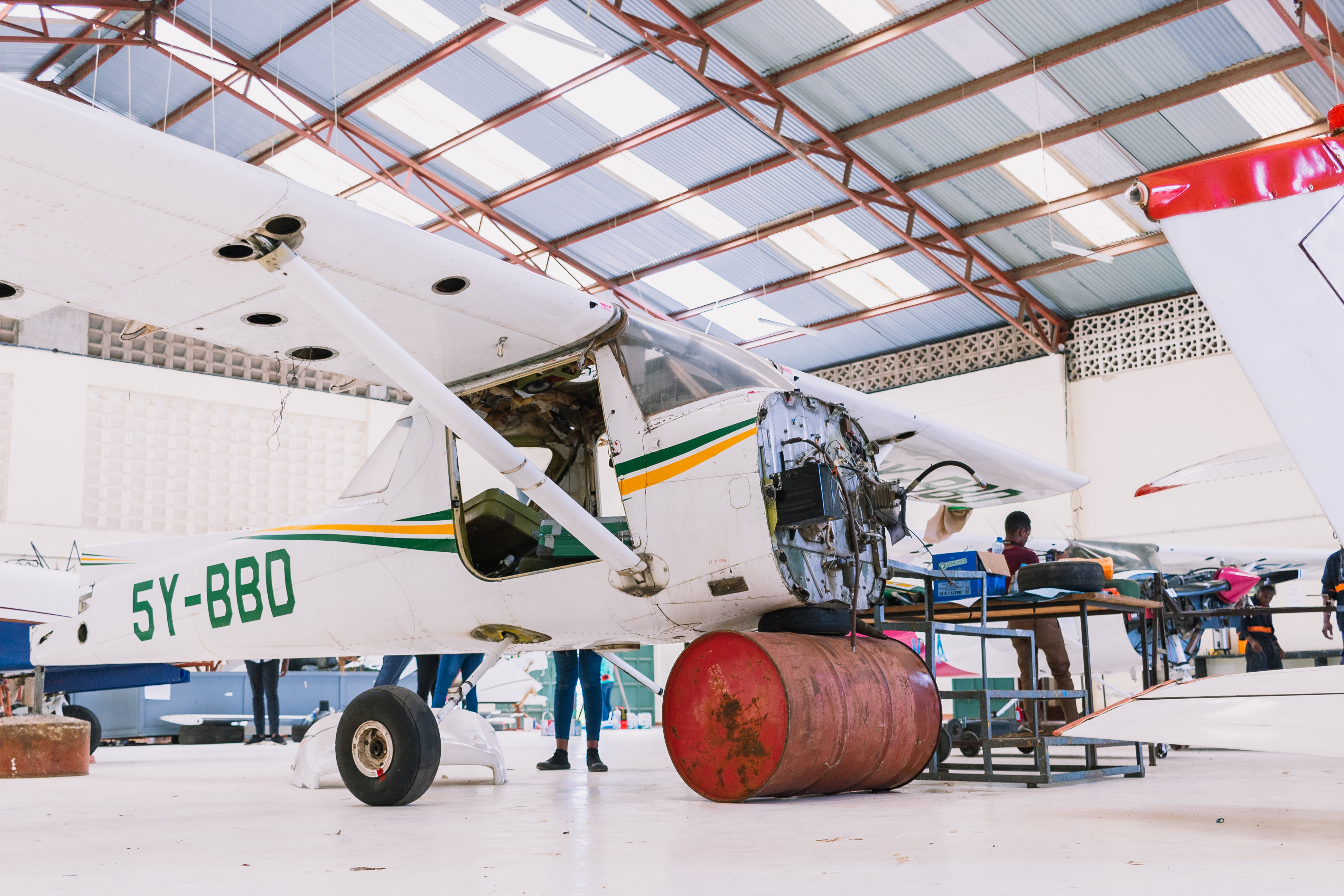 A Cessna with its nose removed at a hangar undergoing maintenance. This is an image with the theme "Africa on the Move or Transport" from: Kenya